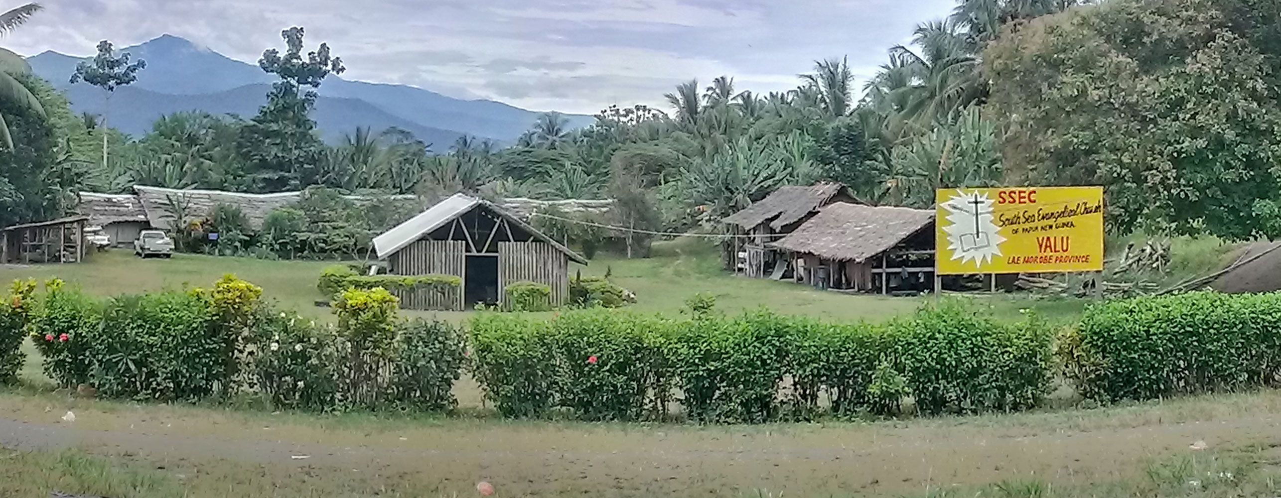 Yalu -South Seas Evangelical Church